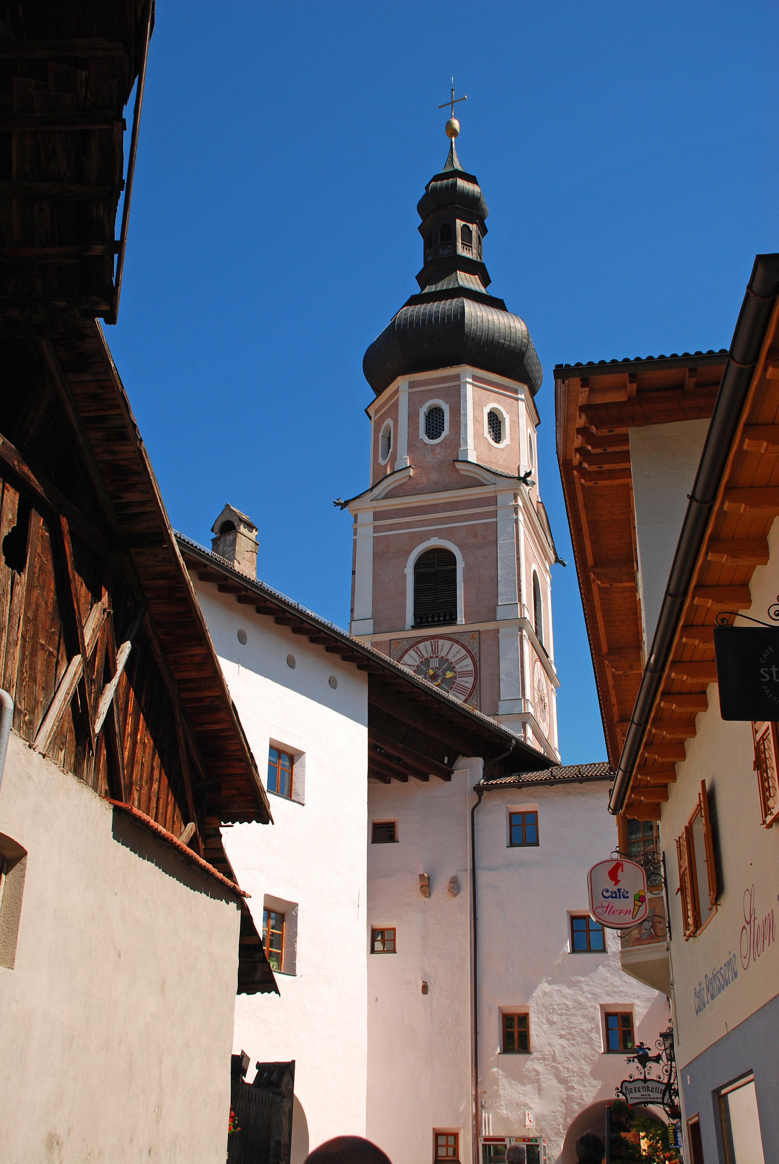 Castelrotto - Kastelruth